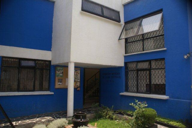 headquarters mexican foundations for teh fight againts aids